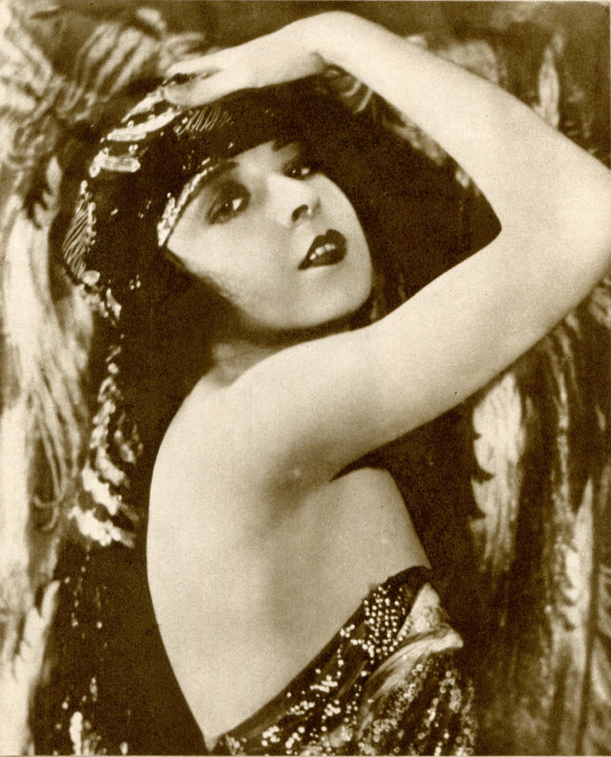 Actress Colleen Moore on page 16 of the March 23, 1922 Silverscreen magazine.